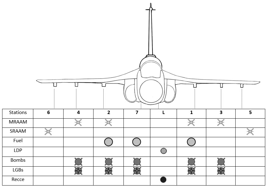 Weapon stations on HAL Tejas